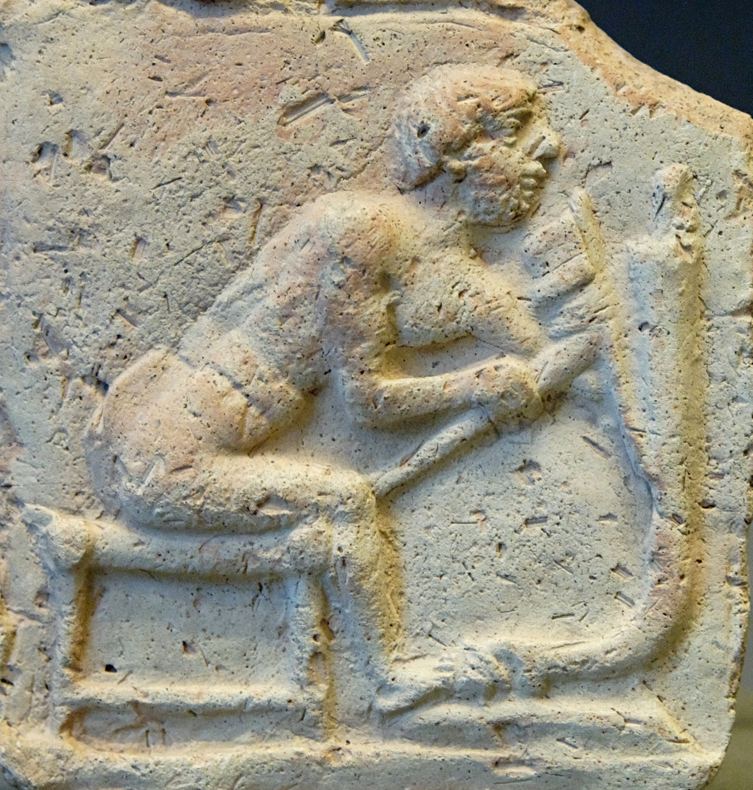 Worker using an adze for cutting a piece of a chariot. Terracotta relief, early 2nd millennium BC. From Eshnunna.